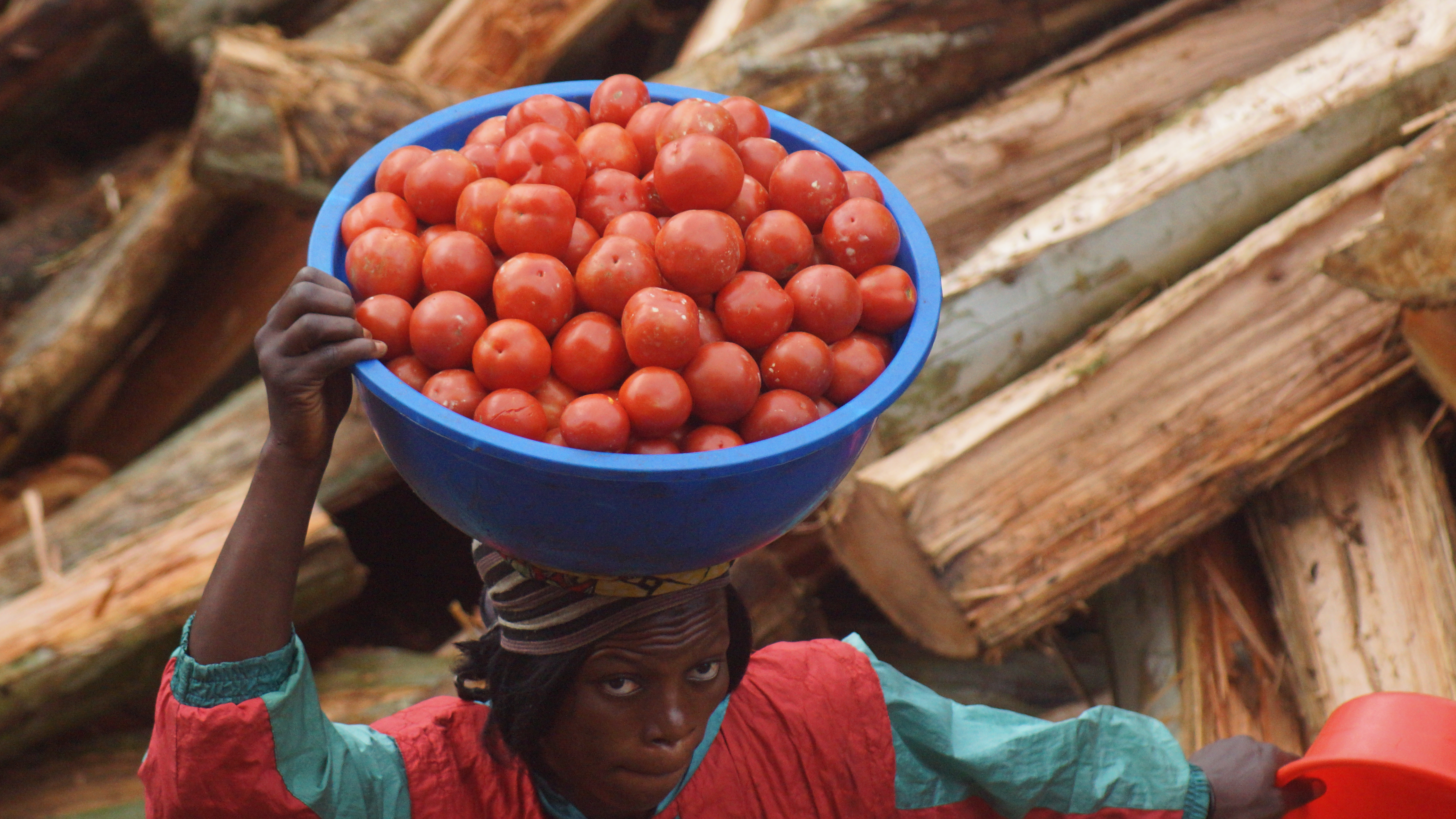 la vie économique en république démocratiquement du congo